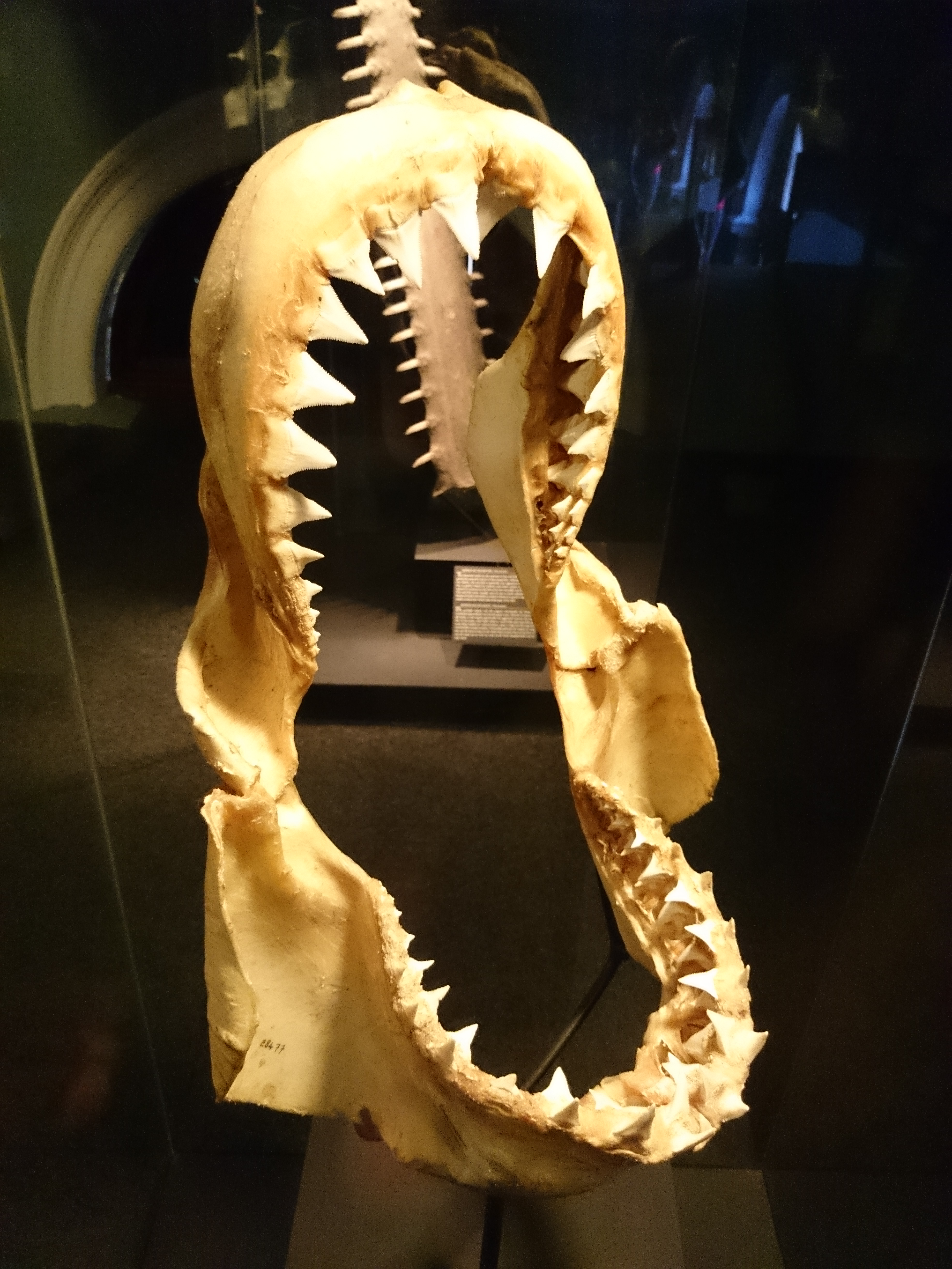 Carcharodon carcharias. The terrifying jaws of the largest carnivorous fish in the world, the great white shark, reveal why this man-eater is so feared by humans. The relatively small size of this set of jaws still shows the large triangular teeth designed for cutting and tearing. A particularly large specimen, whose jaws are kept at the British Museu, measured 11m and a single tooth was 6.6cm long.